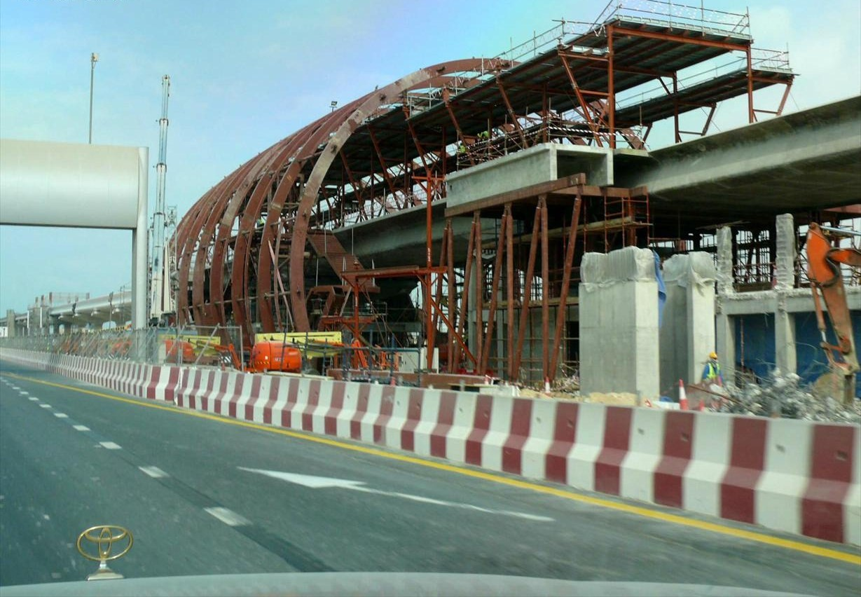 This is a photo showing the construction of the Jebel Ali Free Zone Station for Dubai Metro's Red Line near the Jebel Ali Free Zone in Dubai, United Arab Emirates on 6 January 2008.